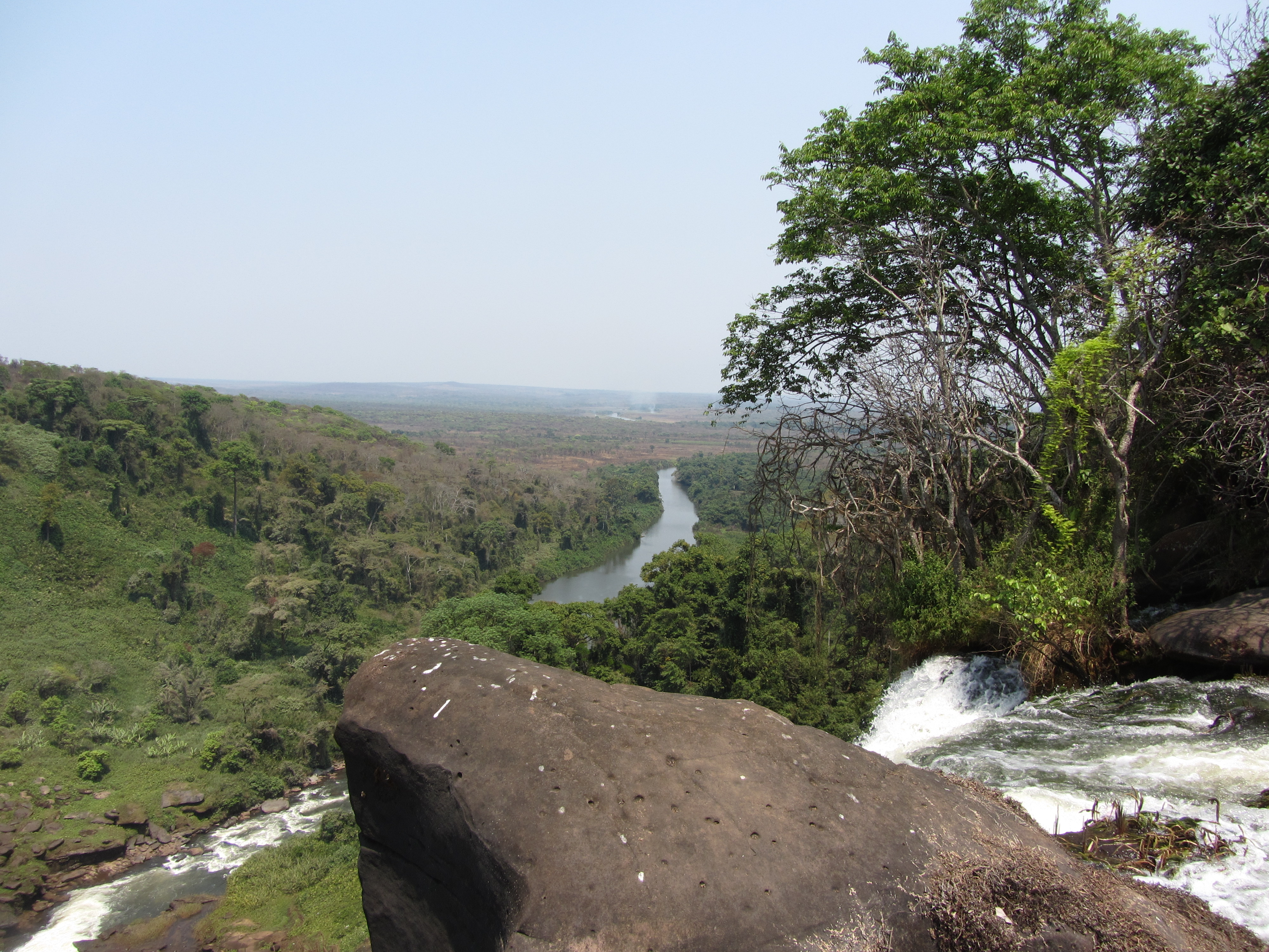 The Lucala River continues after the Kalandula Falls into the plains